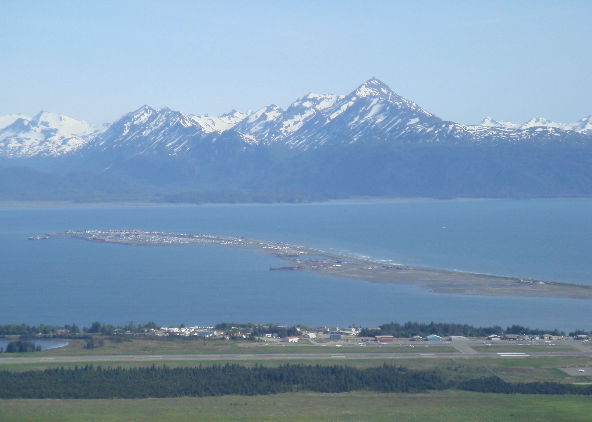 Everyone has to take this photo, though generally they do it better!